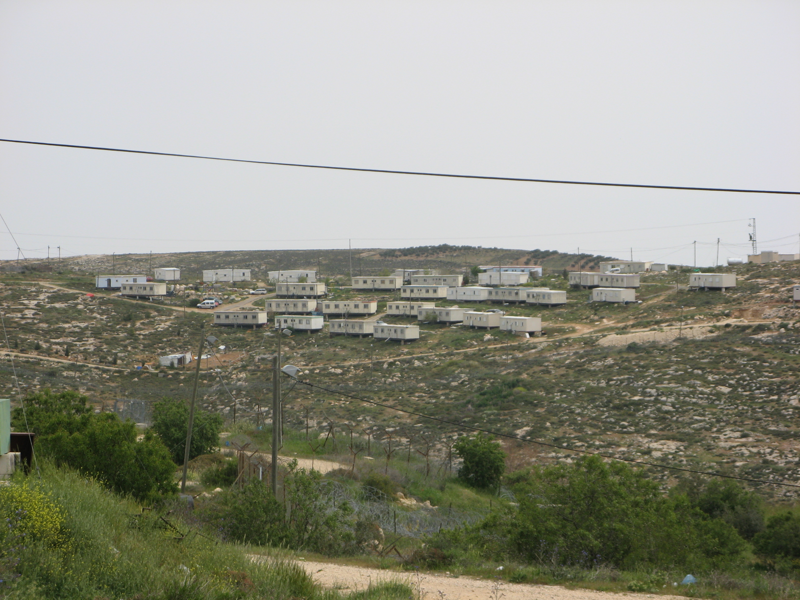 Pnei Kedem outpost